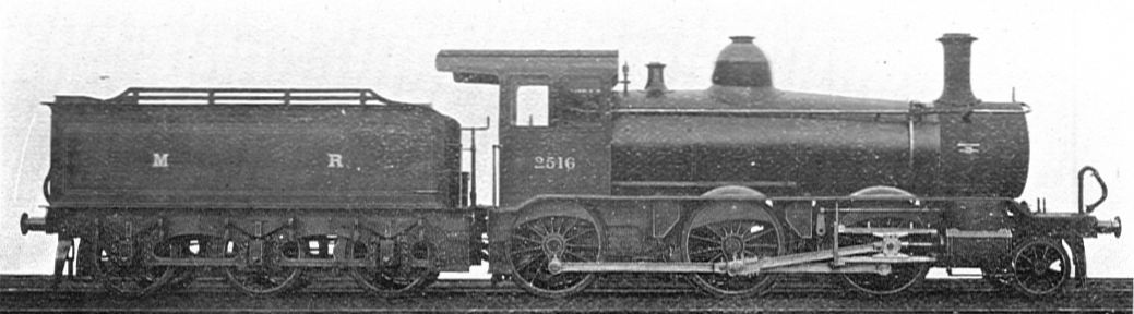 Fig. 2 An American Object Lesson Mogul locomotive 2516 (Howden, Boys' Book of Locomotives, 1907). This Locomotive is Midland Railway (UK) No.2516 a member of the Midland Railway 2511 Class of 2-6-0 Goods engines, it was constructed by Schenectady Locomotive Works. This image taken by a official Midland Railway Photographer is registered here